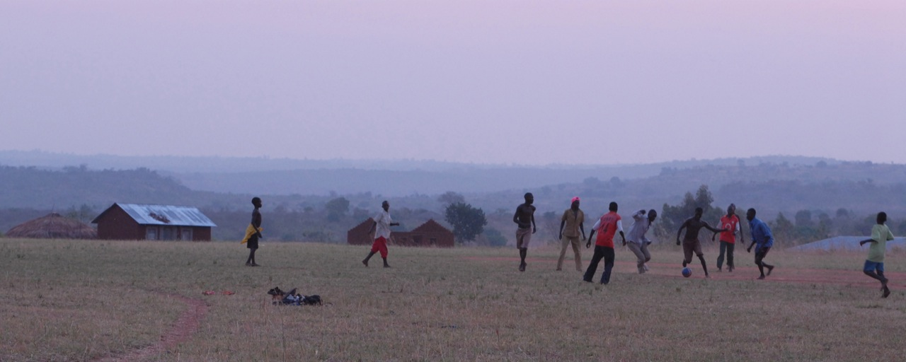 Football (soccer) game in Arua Town, Arua District, Northern Region of Uganda.